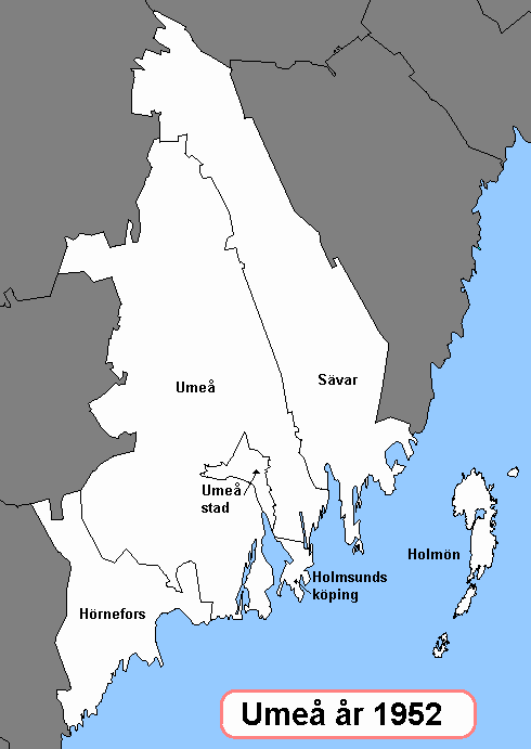 old municipalities around Umeå